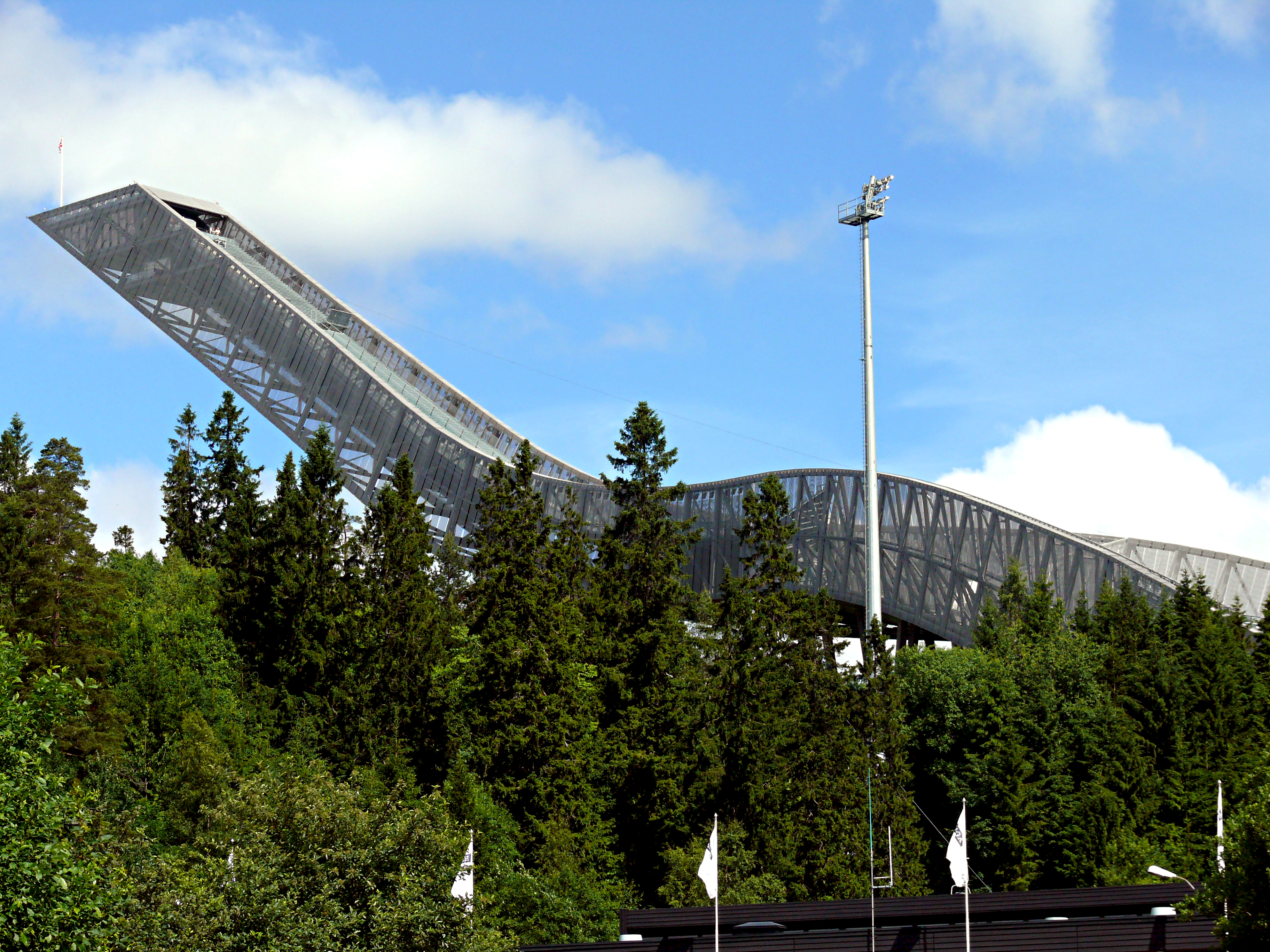 Holmenkollen Jump Tower as seen from the West side